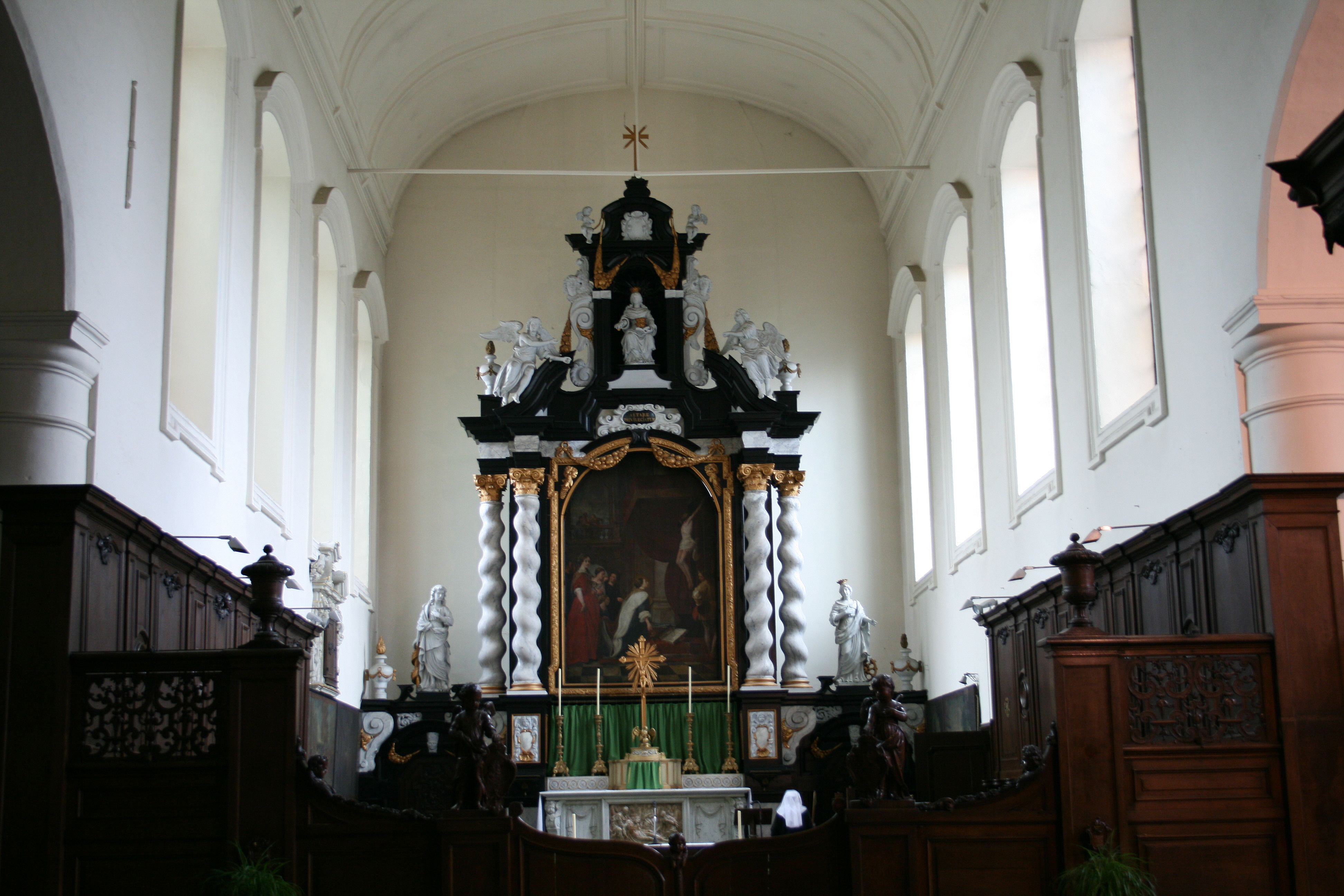 Bruges (Belgium), the chapel of the Beguinage.